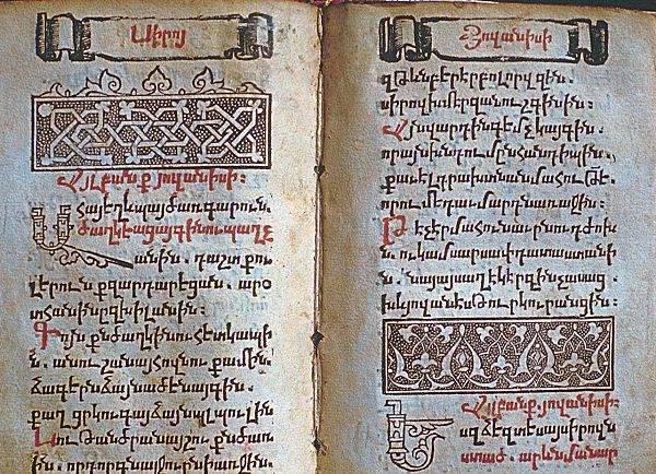 Tagharan, Yakob Meghapart, Venice, 1513.